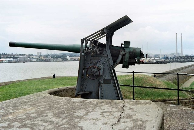 Gun This gun overlooks the estuary. The ferry dock can be seen behind the seawall. Comment : This is a QF 12-pounder 12 cwt Mark V gun.